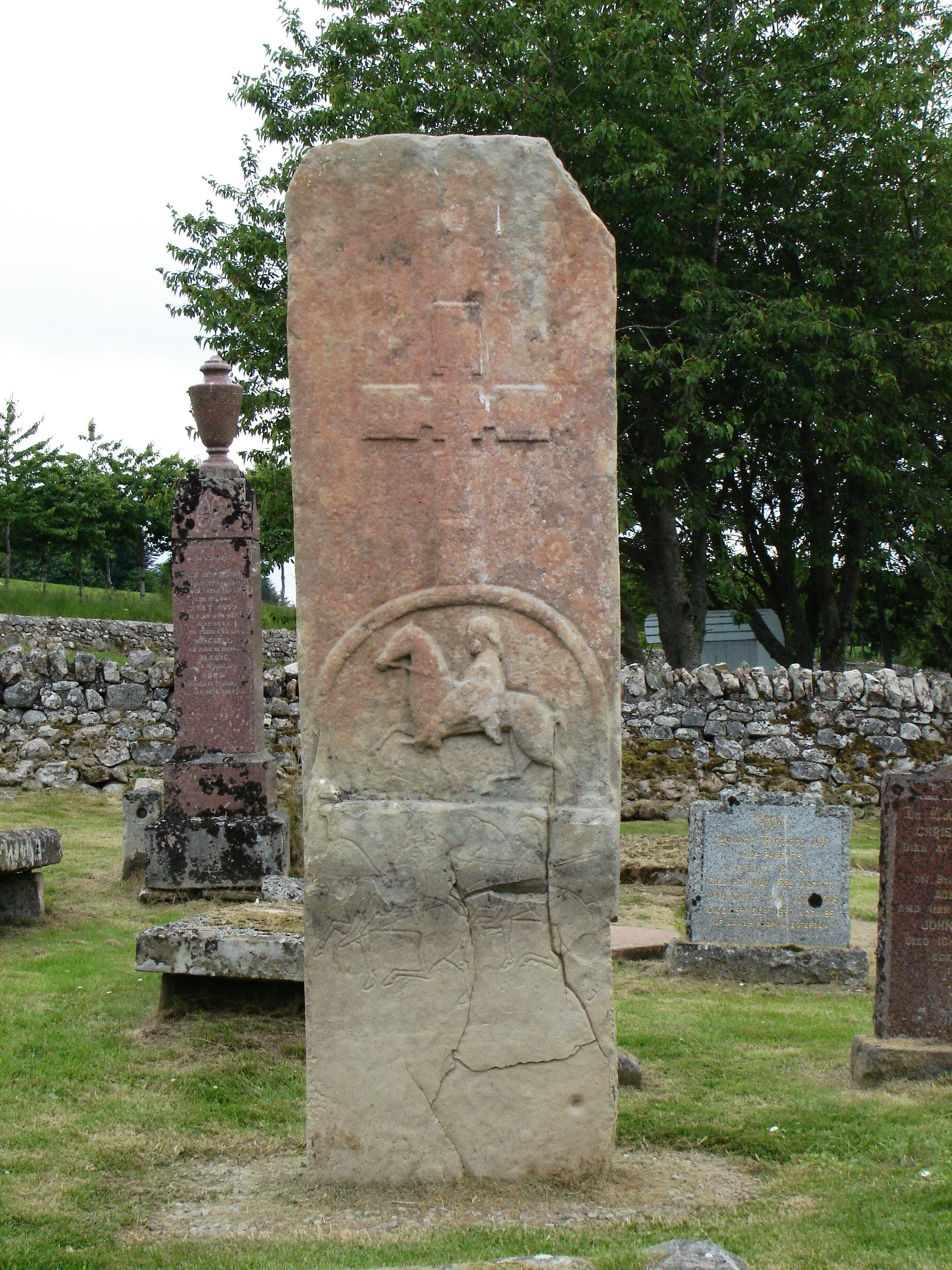 Uploader's own picture of the Edderton Cross Slab